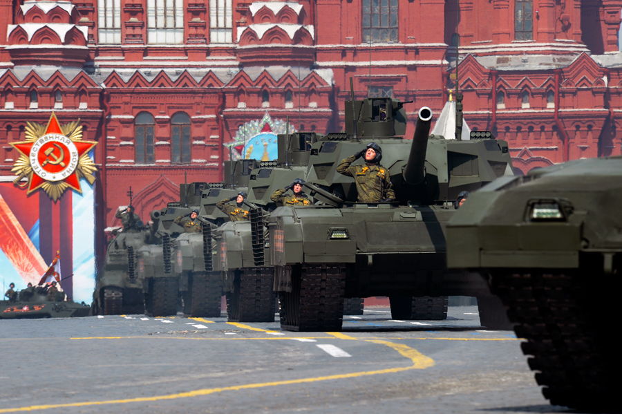 Victory Day military parade on Red Square 2016-05-09